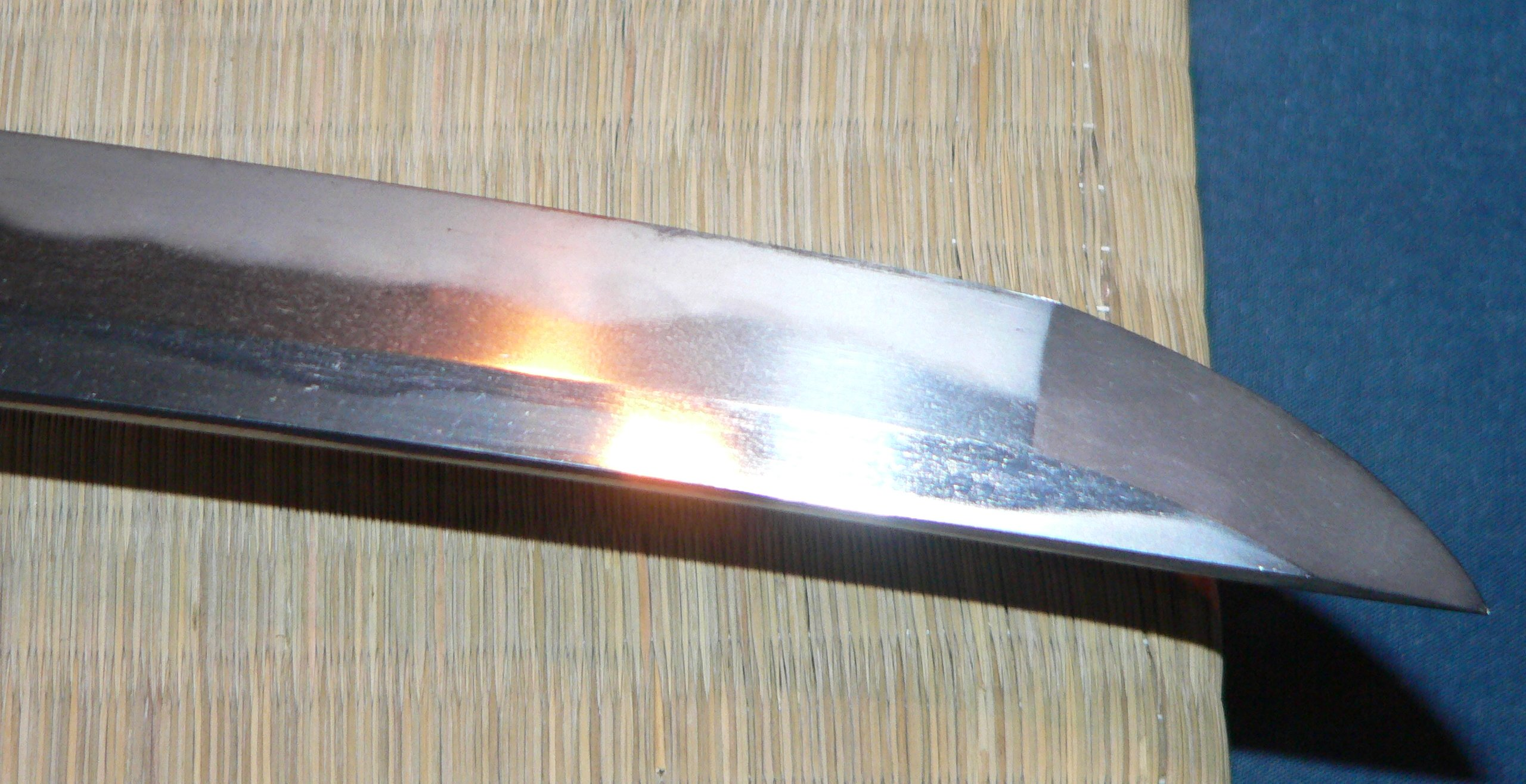 katana blade signed by Soshu Ju Yasuharu, Muromachi era, (16th century)